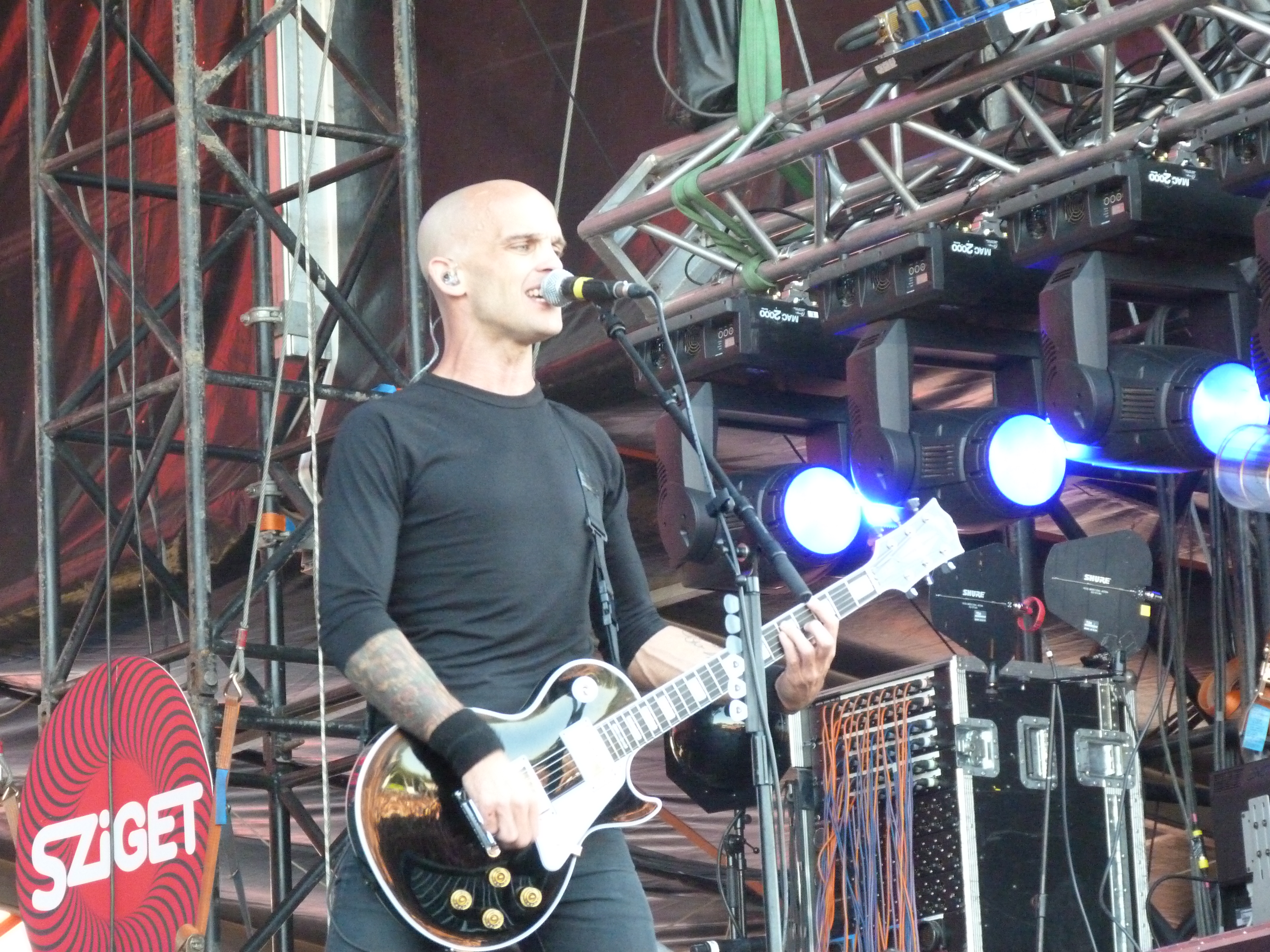 Zach Blair. Rise Against was playing at Sziget Festival in Budapest, on the 10th of August, 2011. American hardcore punk band from Chicago, Illinois. Formed in 1999, the band currently consists of Tim McIlrath (lead vocals, rhythm guitar), Zach Blair (lead guitar, backing vocals), Joe Principe (bass guitar, backing vocals) and Brandon Barnes (drums, percussion). Published under Creative Commons in the Metapolisz DVD line.